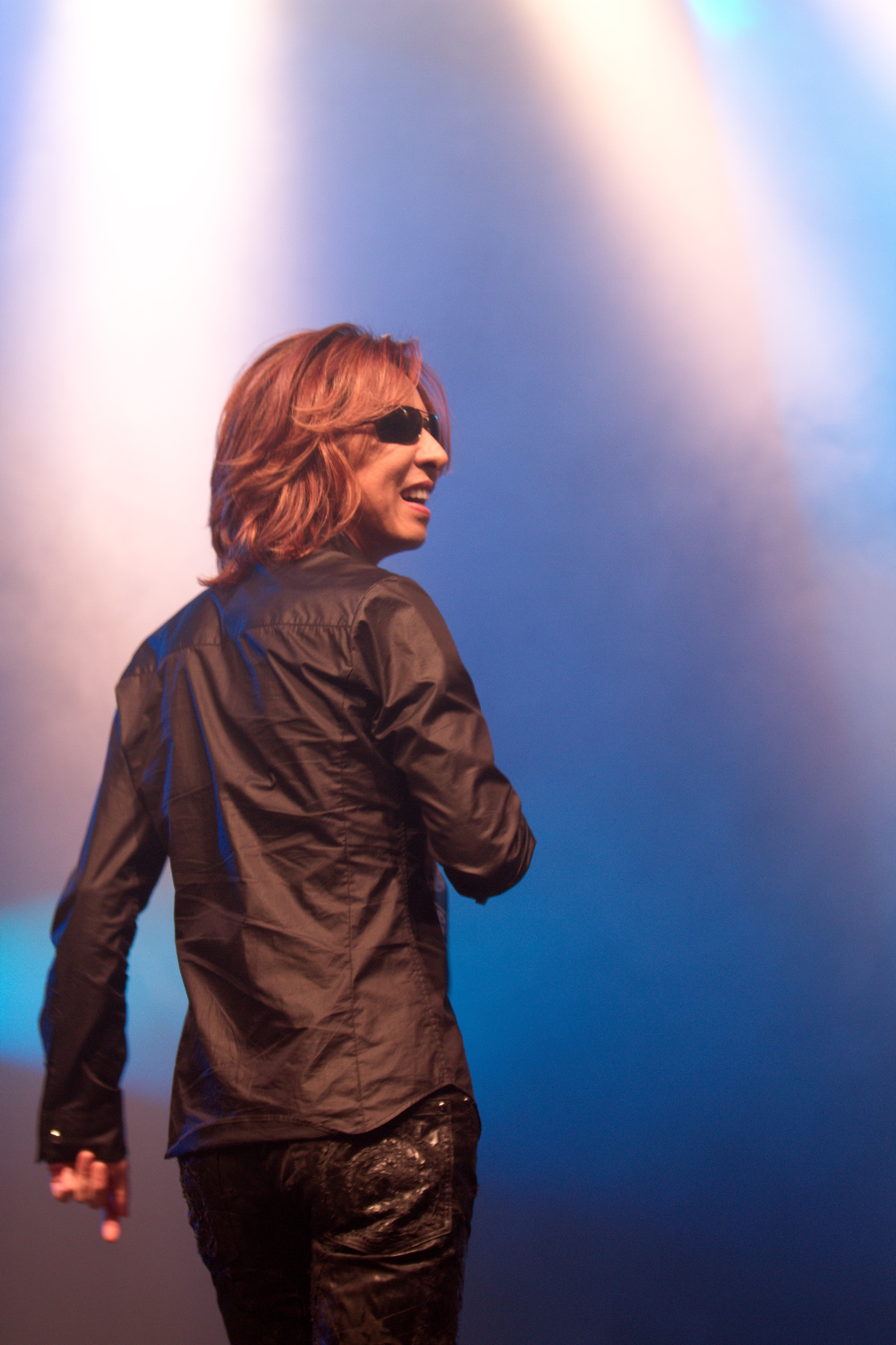 Toshi and Yoshiki, from X Japan, duets at Japan Expo 2010 (Paris, France).